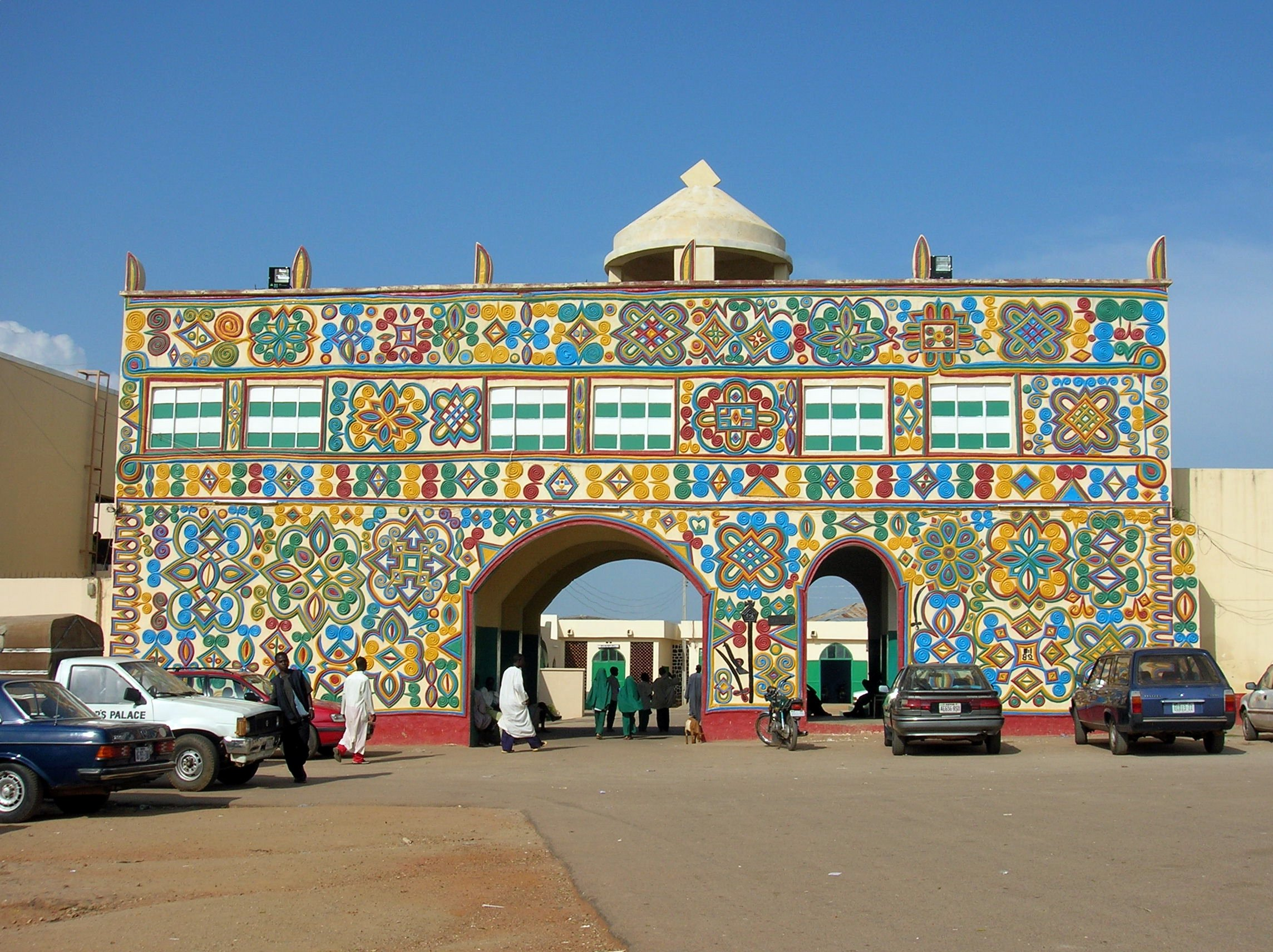 New Gate to the palace of the Emir of Zaria, Nigeria